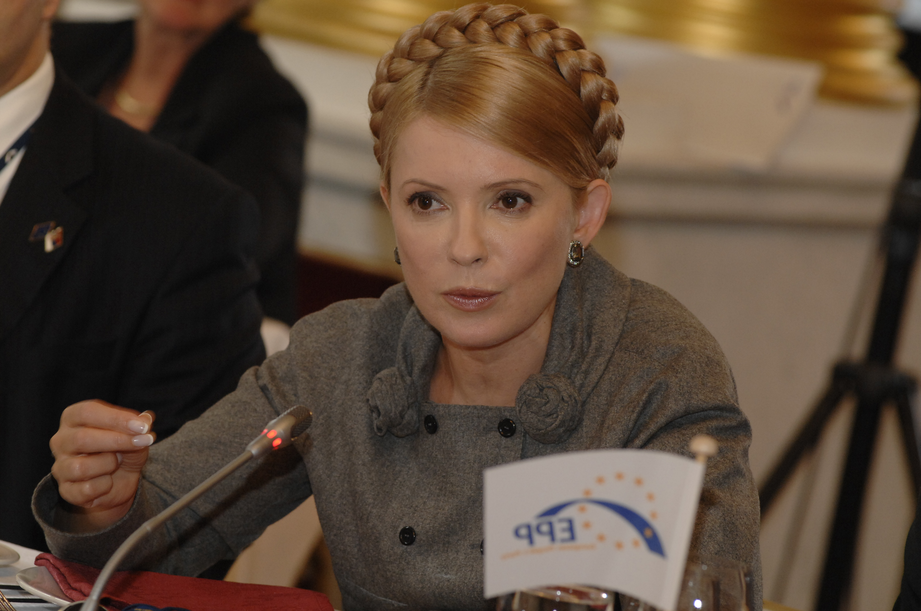 EPP Summit 15 October 2008